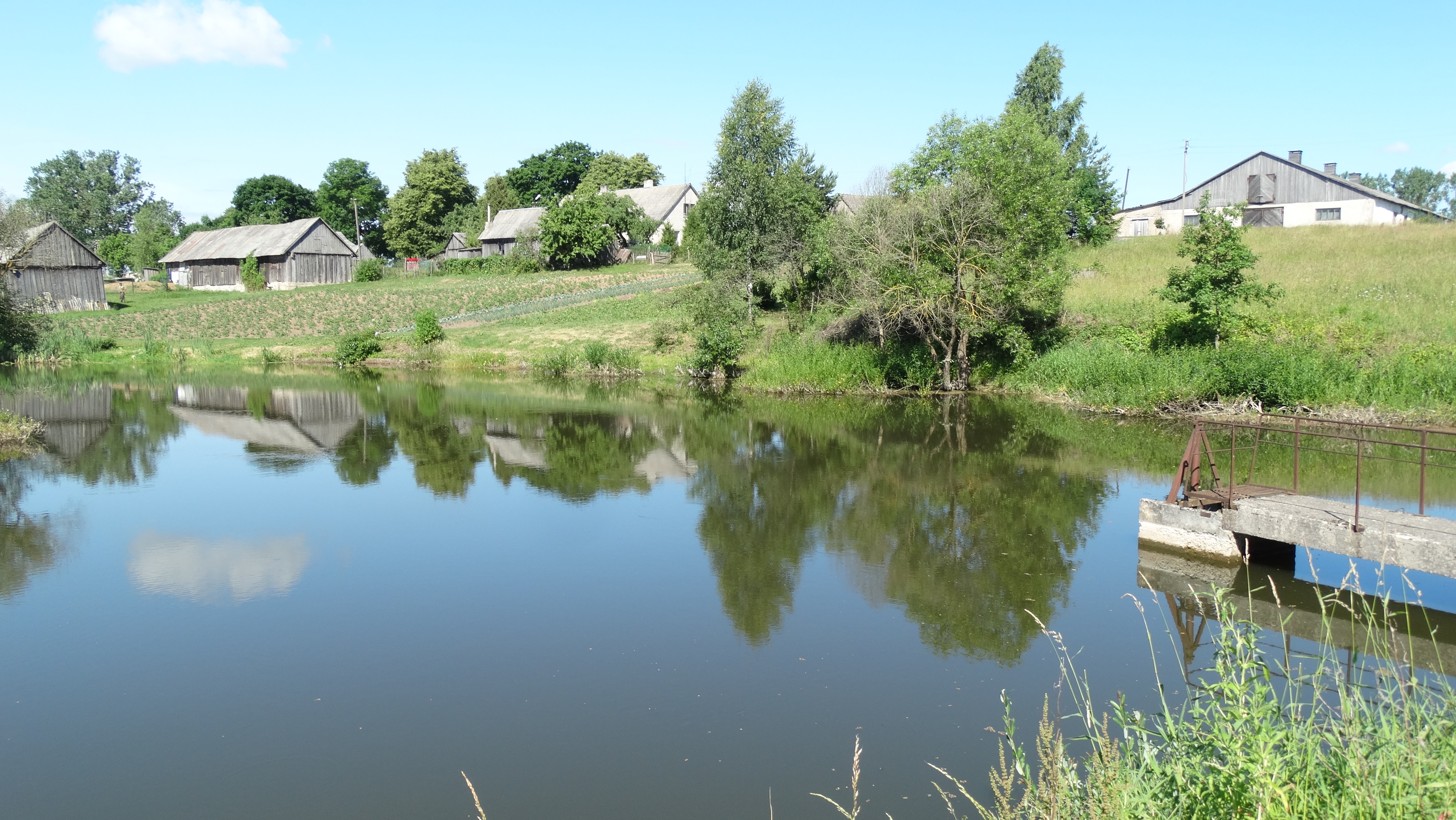 Plembergas, Raseiniai district, Lithuania